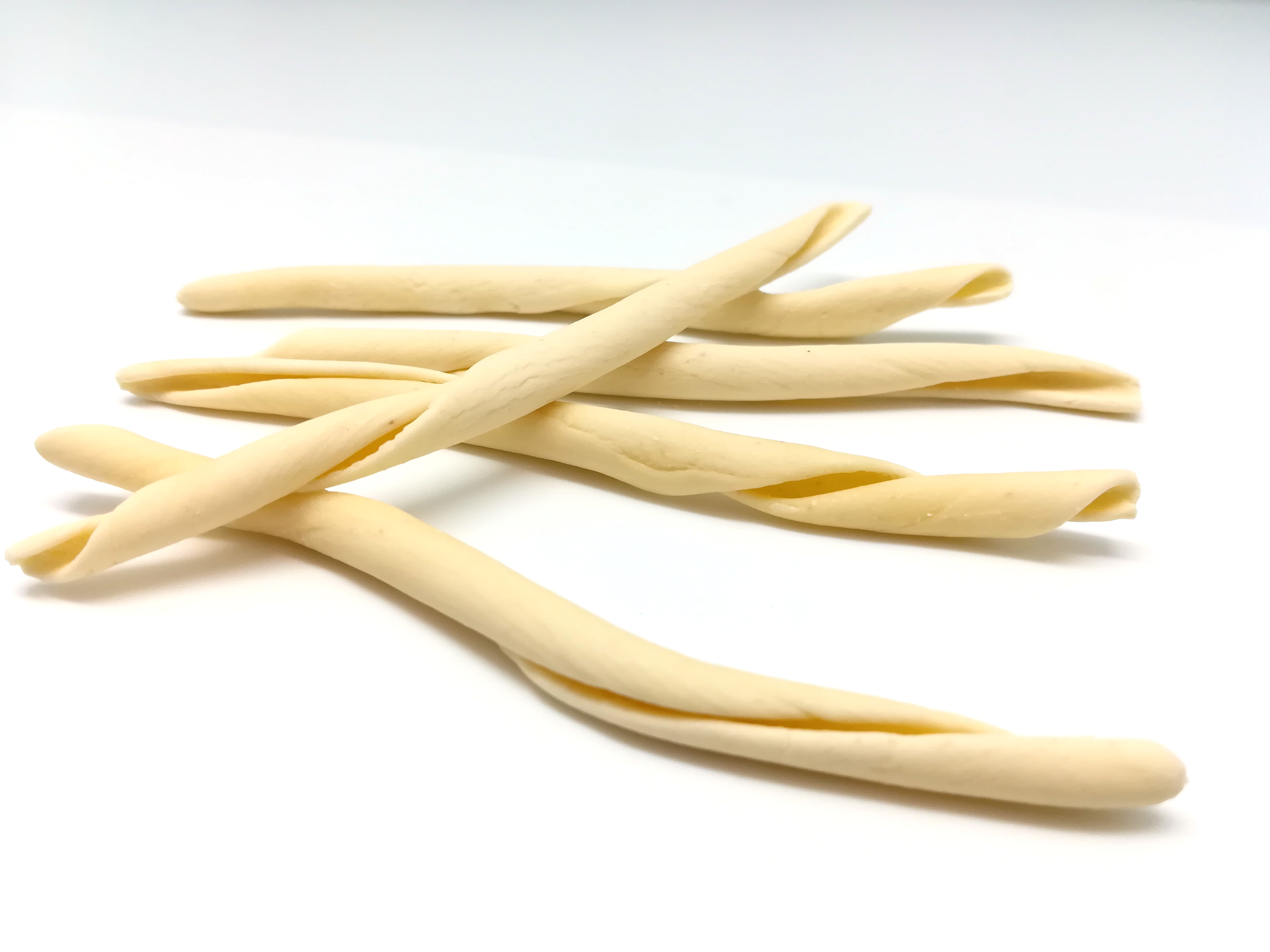 Fileja, a type of Italian pasta from Calabria